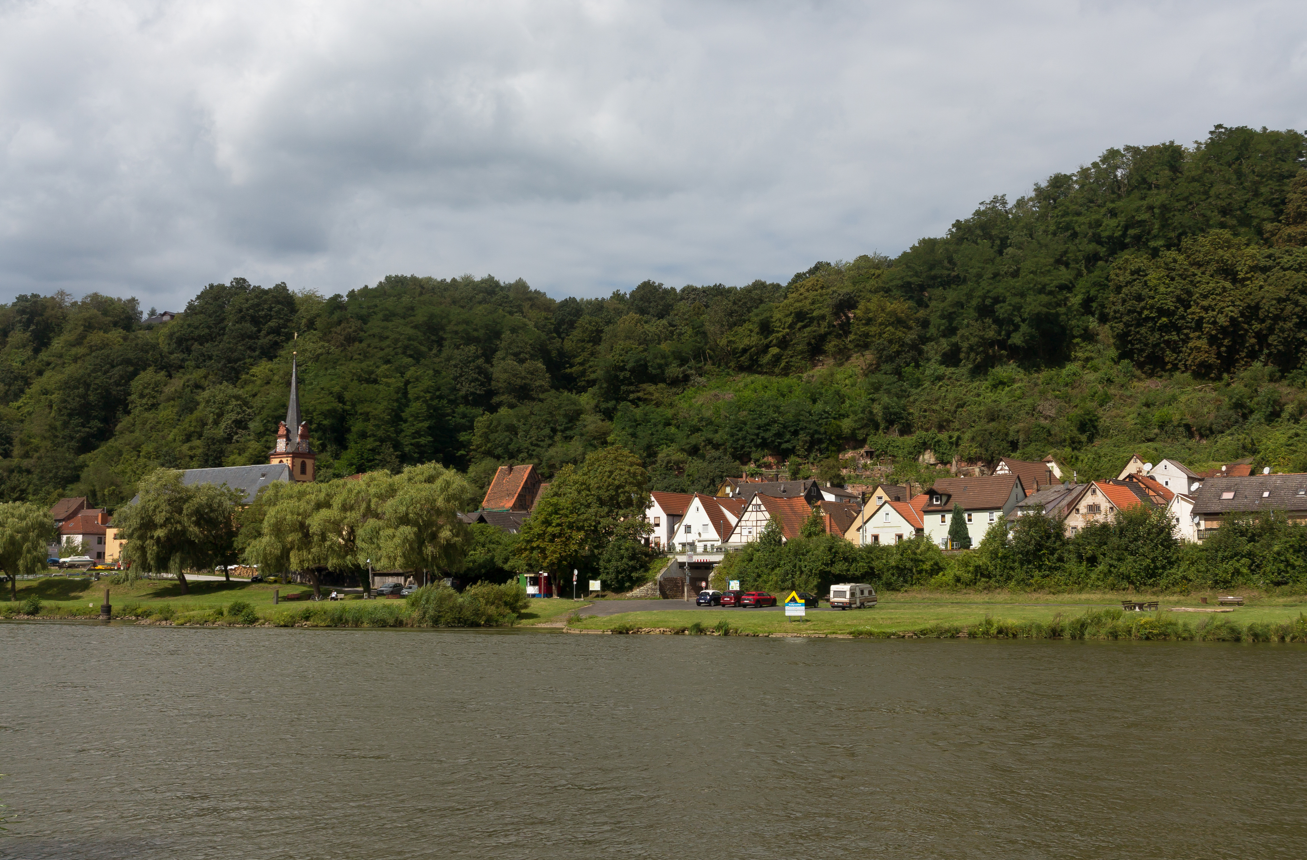 Stadtprozelten, view to the town with church (die Kirche Mariä Himmelfahrt)